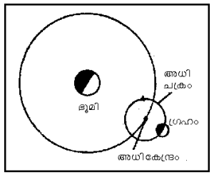 Epicycle of tolamy